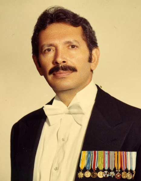 Nasser Farbod